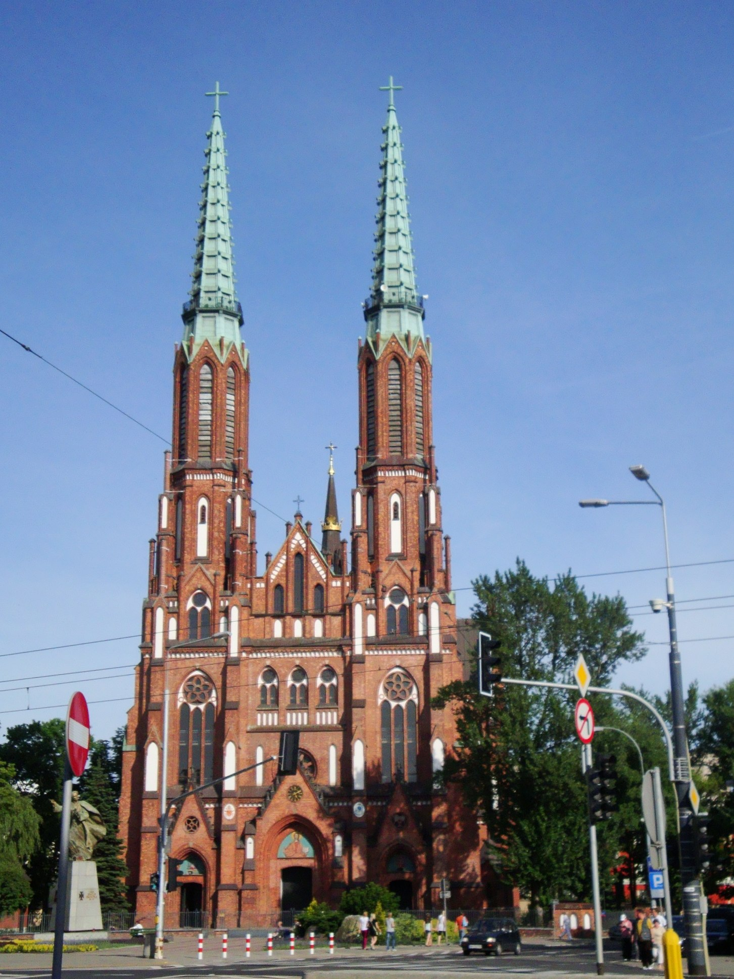 Cathedral of Archangel Michael